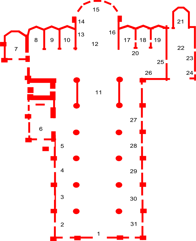 Plan of Basilica di Santa Maria Gloriosa dei Frari